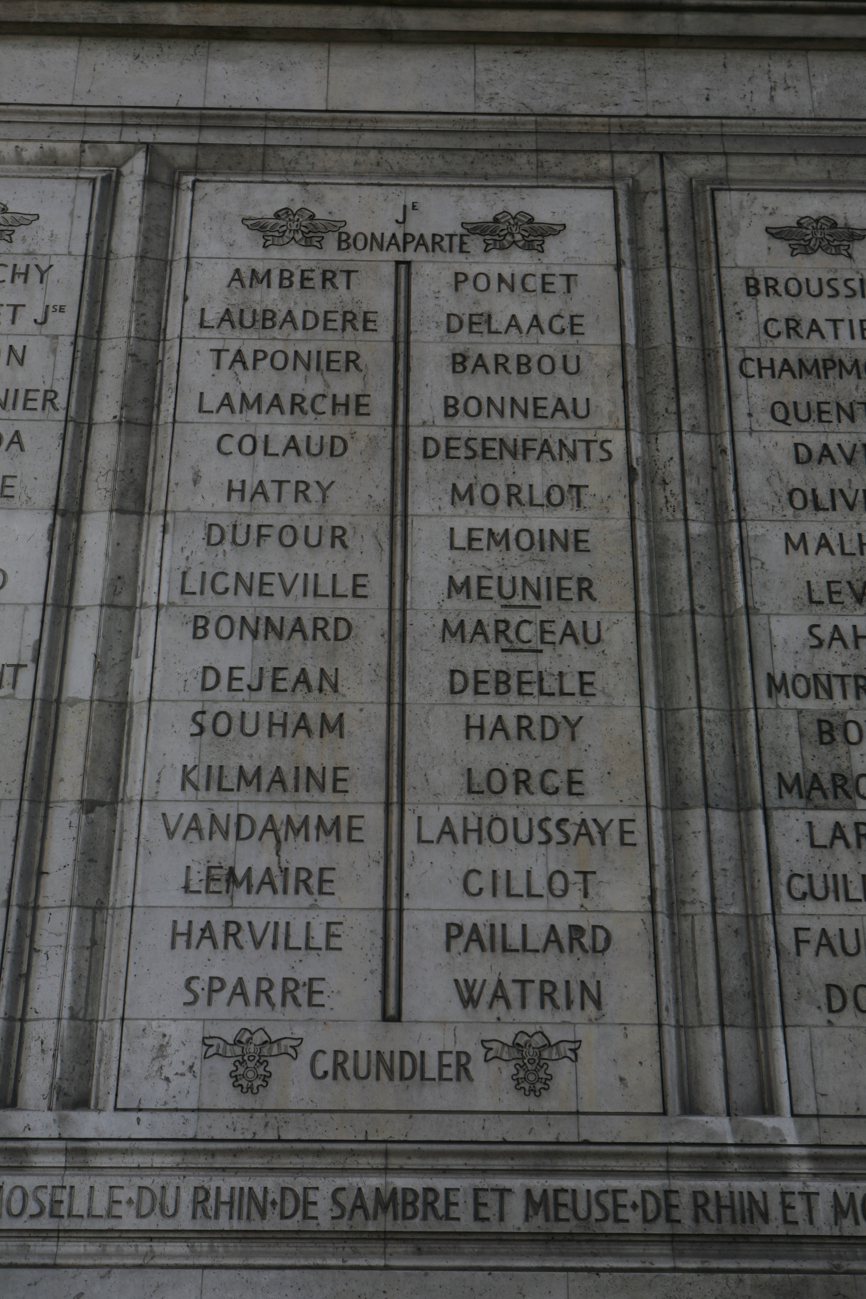 Details of the Arc de Triomphe. Northern pillar, Columns 5,6.